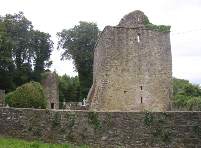 Aghaviller ruined church and round tower, Newmarket, Co. Kilkenny. The church is monastic of the 12C (dedicated to St Brenainn), with a 15C tower built over the chancel. The round tower has had a door inserted at ground level.